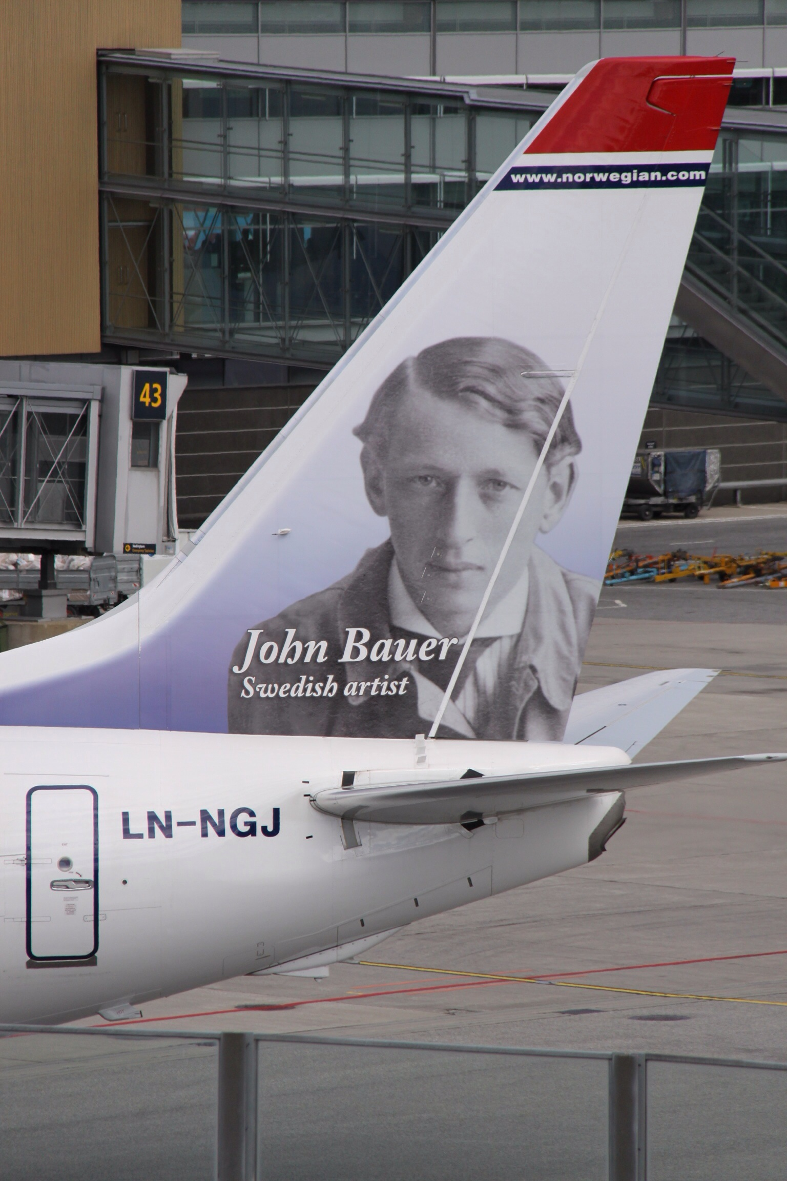 At Oslo Gardermoen